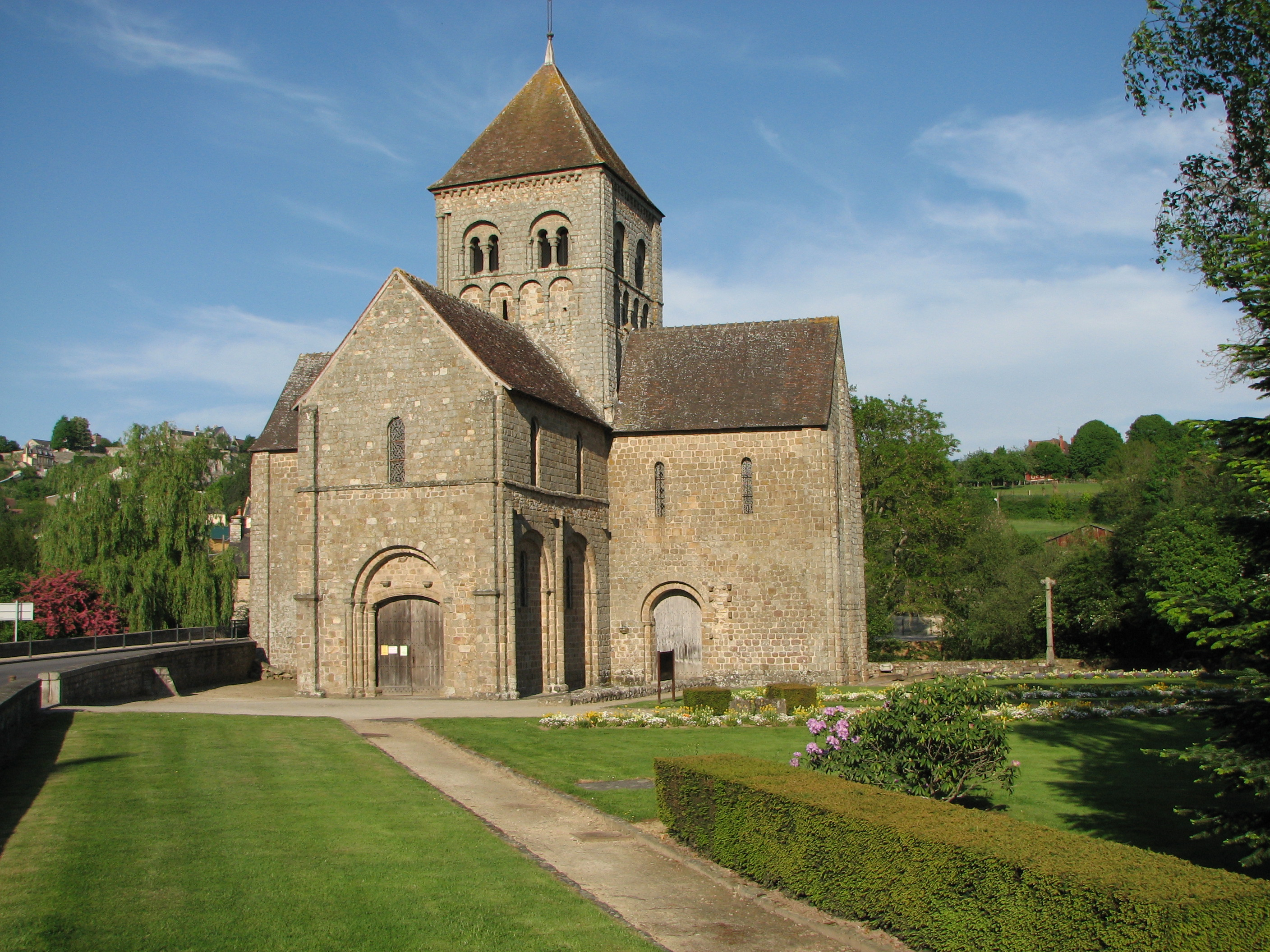 Church of Notre-Dame-sur-l'Eau, Domfront, Orne, France